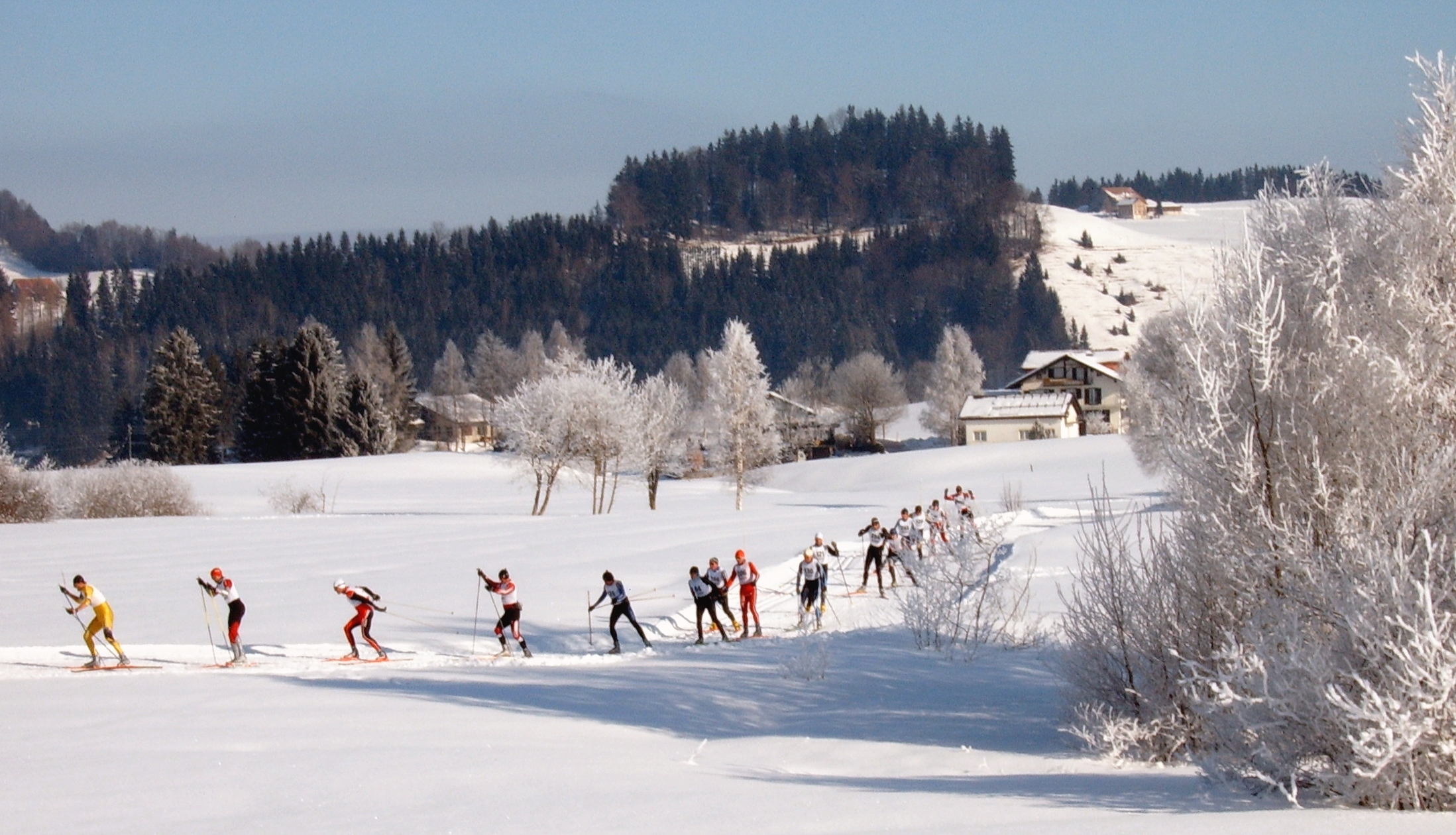 Cross-country skiing on Schwedentritt loppet, Einsiedeln, Switzerland